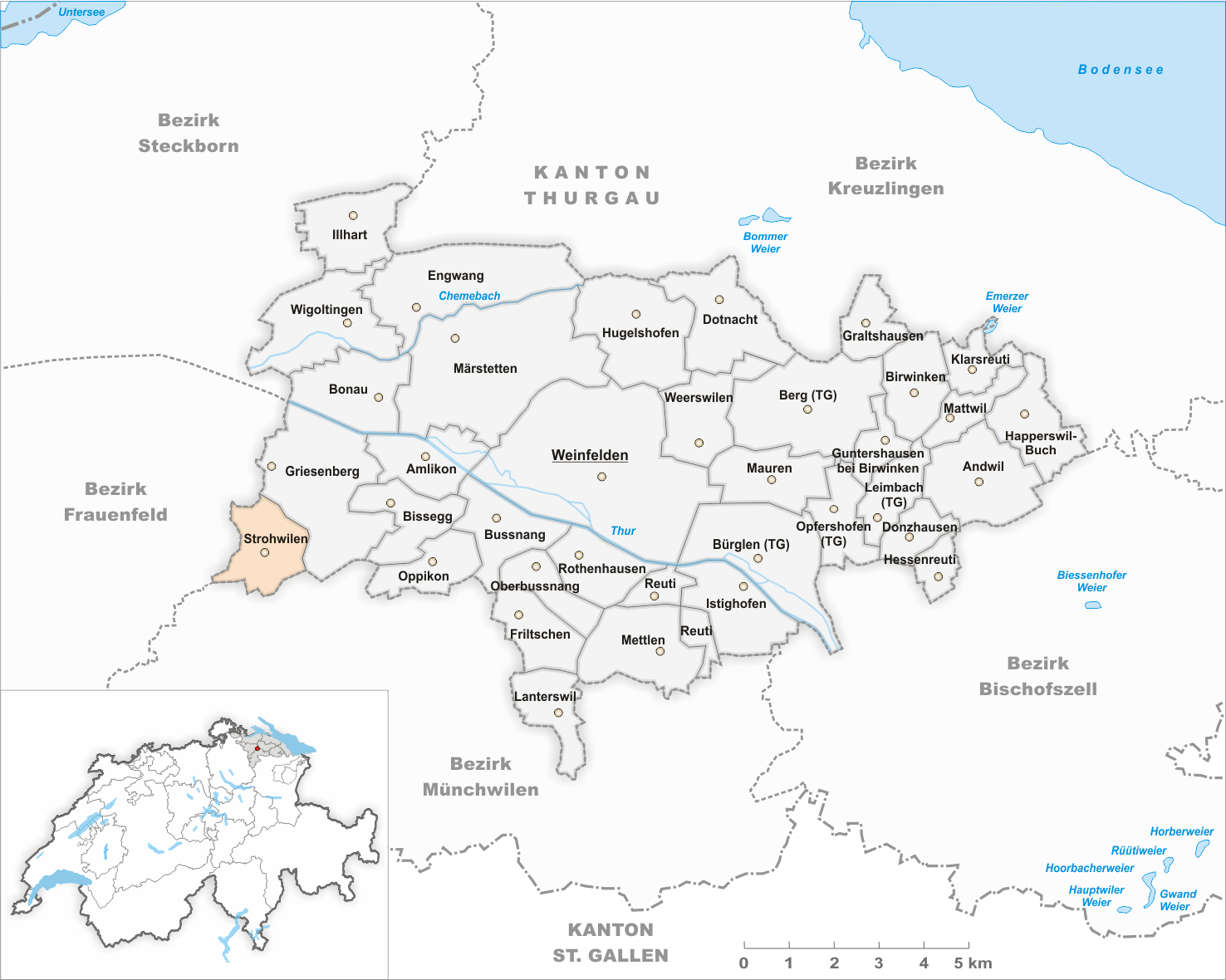 Municipality Strohwilen